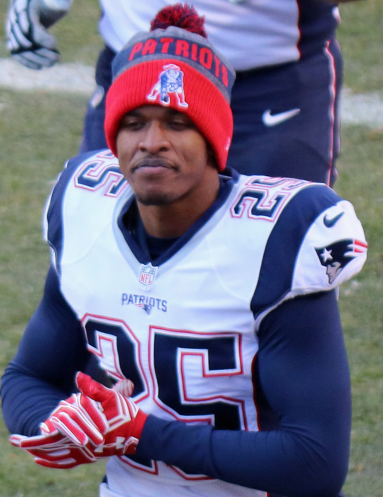 Eric Rowe, a player on the National Football League.